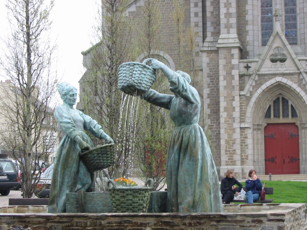 Women washing oysters in Cancale (France, Britanny)